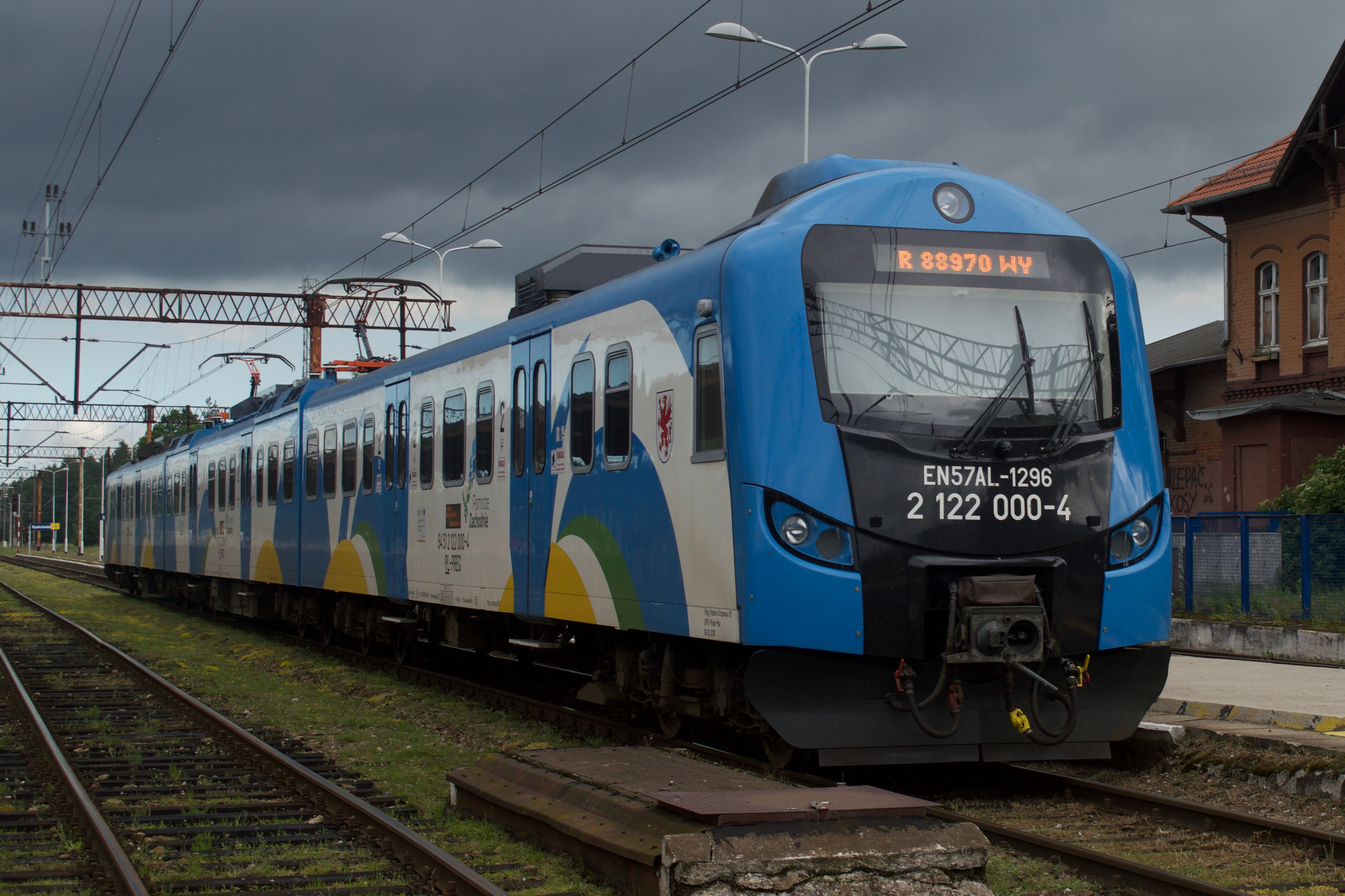 Polish State Railway PKP regional sector Polregio take charge of all local services in the West Pomeranian Voivodeship (Województwo zachodniopomorskie). Seen at the junction station of Wysoka Kamieńska is EMU EN57AL-1296 having arrived in on train R88970, 08:06 Kamień Pomorskito Wysoka Kamieńska. 26 June 2017.